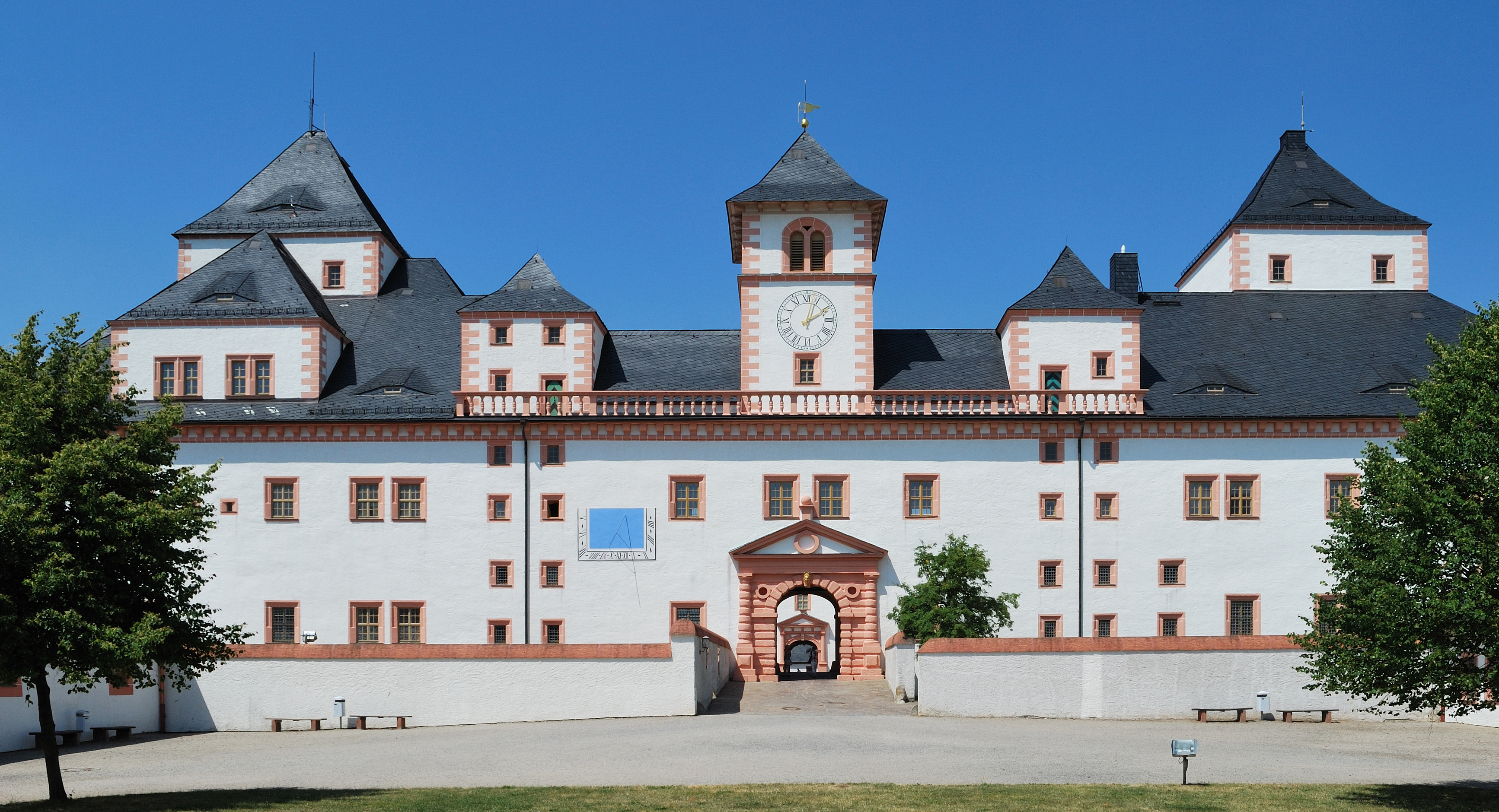 The south side of the castle Augustusburg with the entrance. Saxony in Germany.